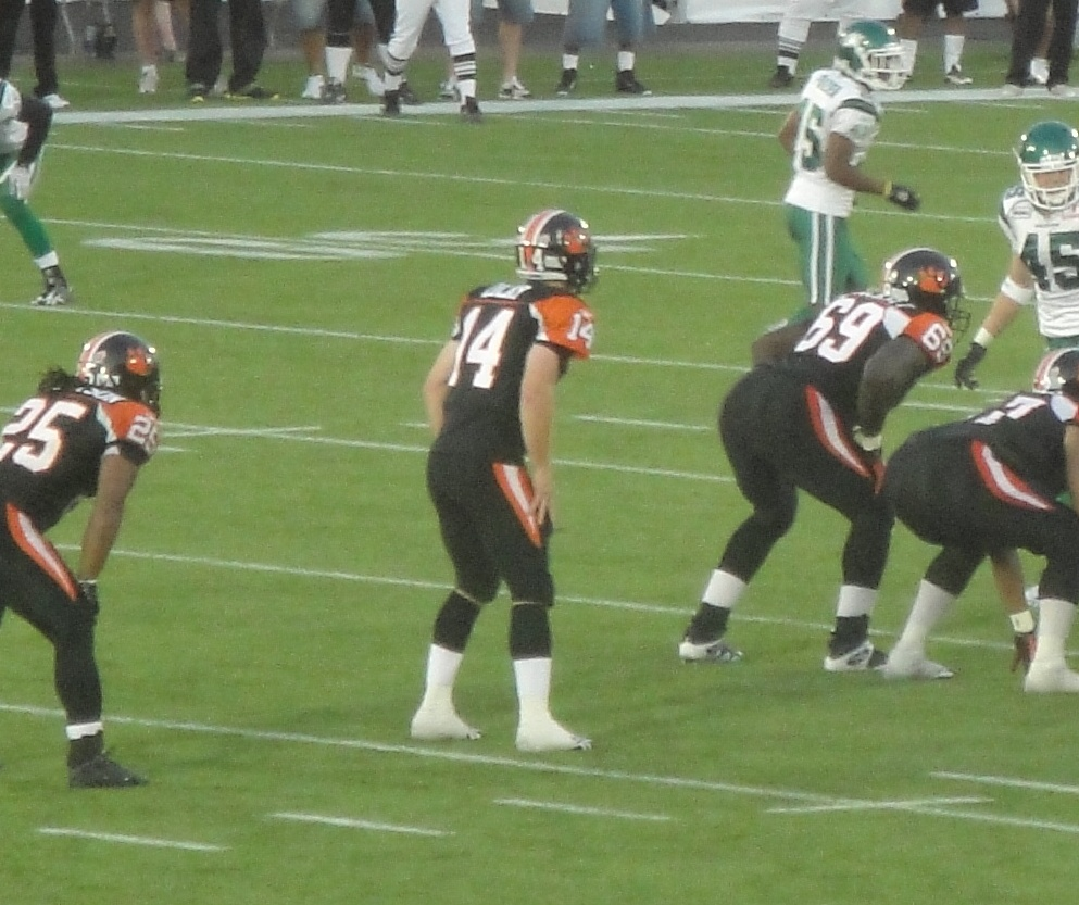 Travis Lulay in the BC Lions home opener in 2010.